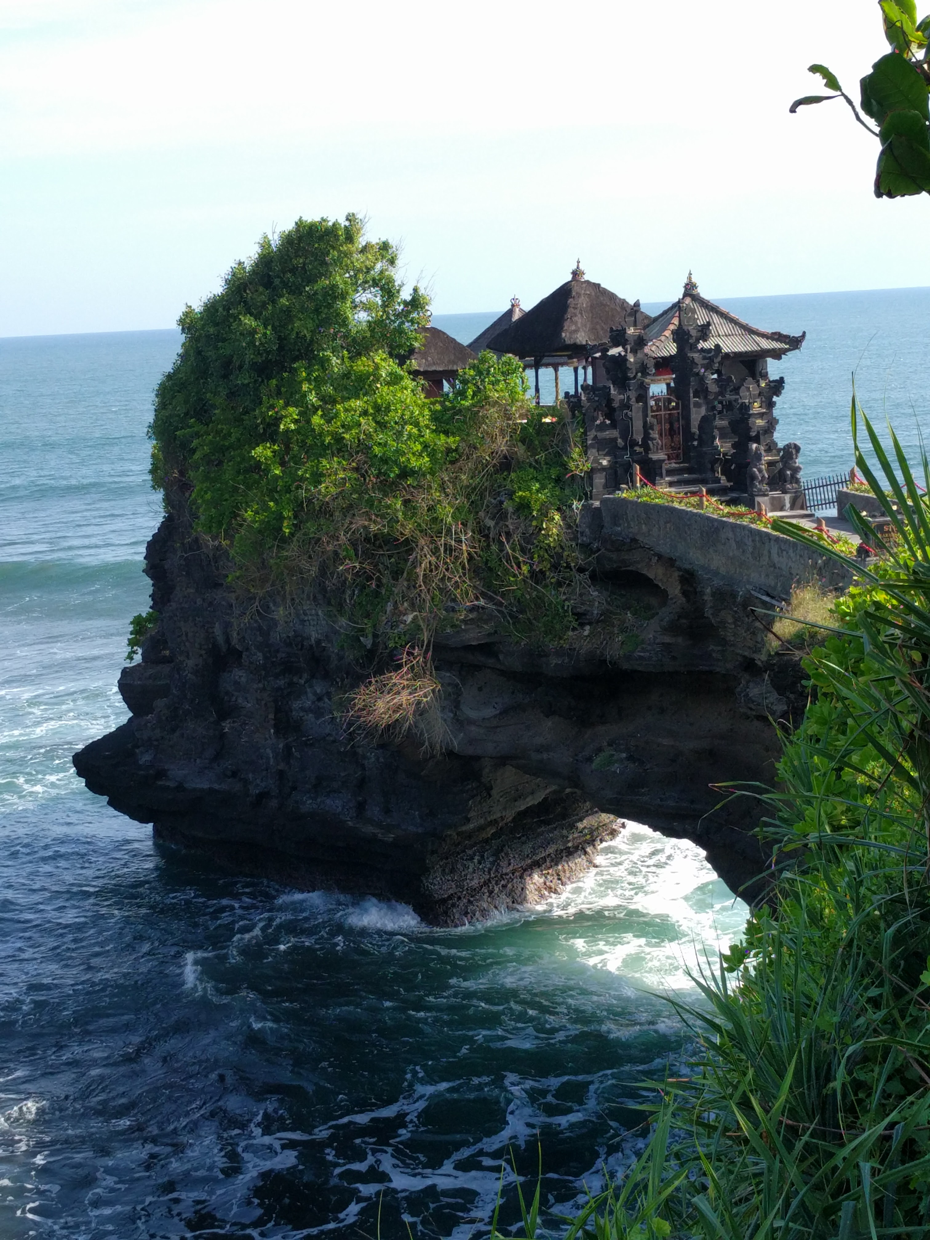 A view of Batu Bolong temple